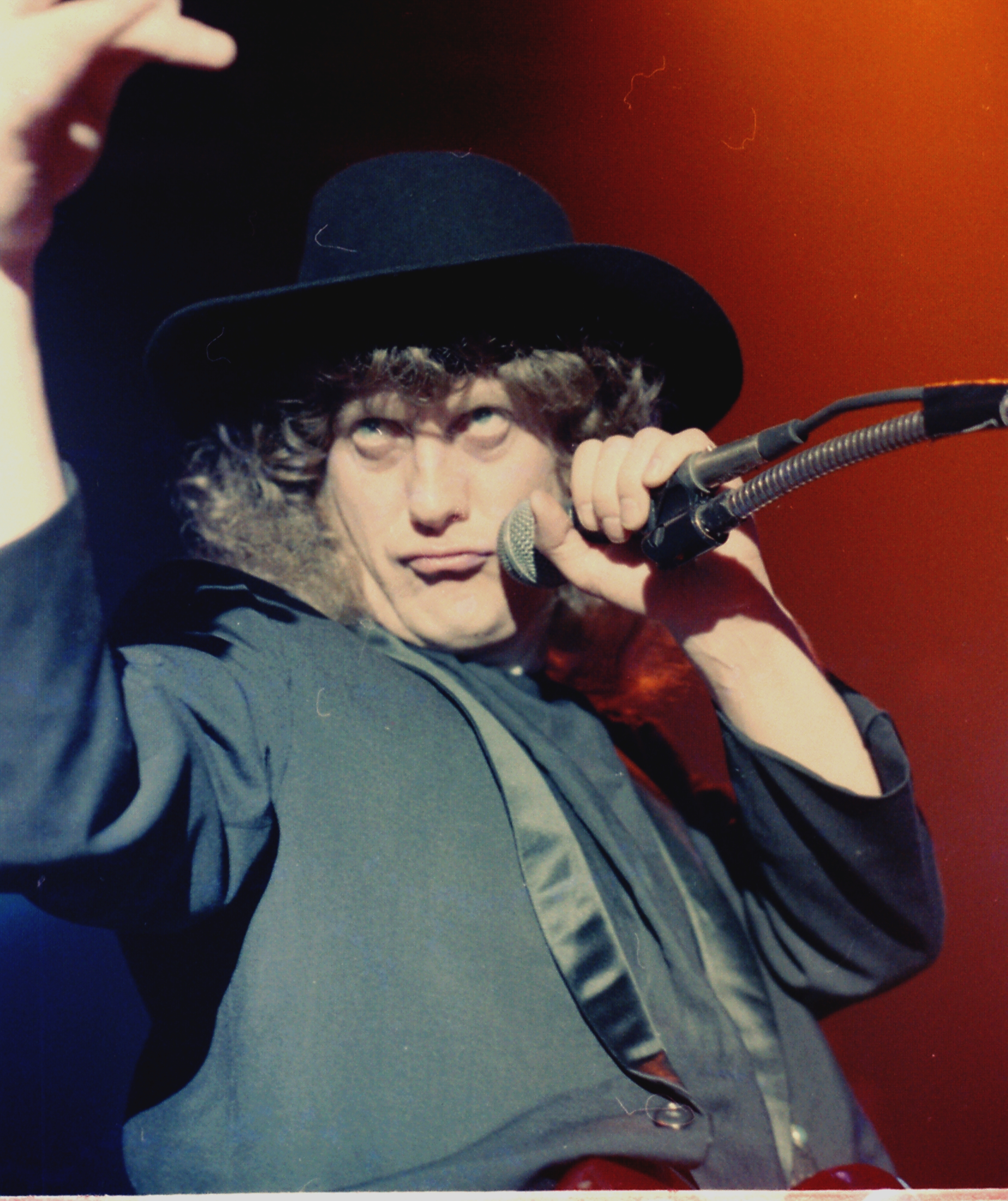 Noddy Holder at Cardiff